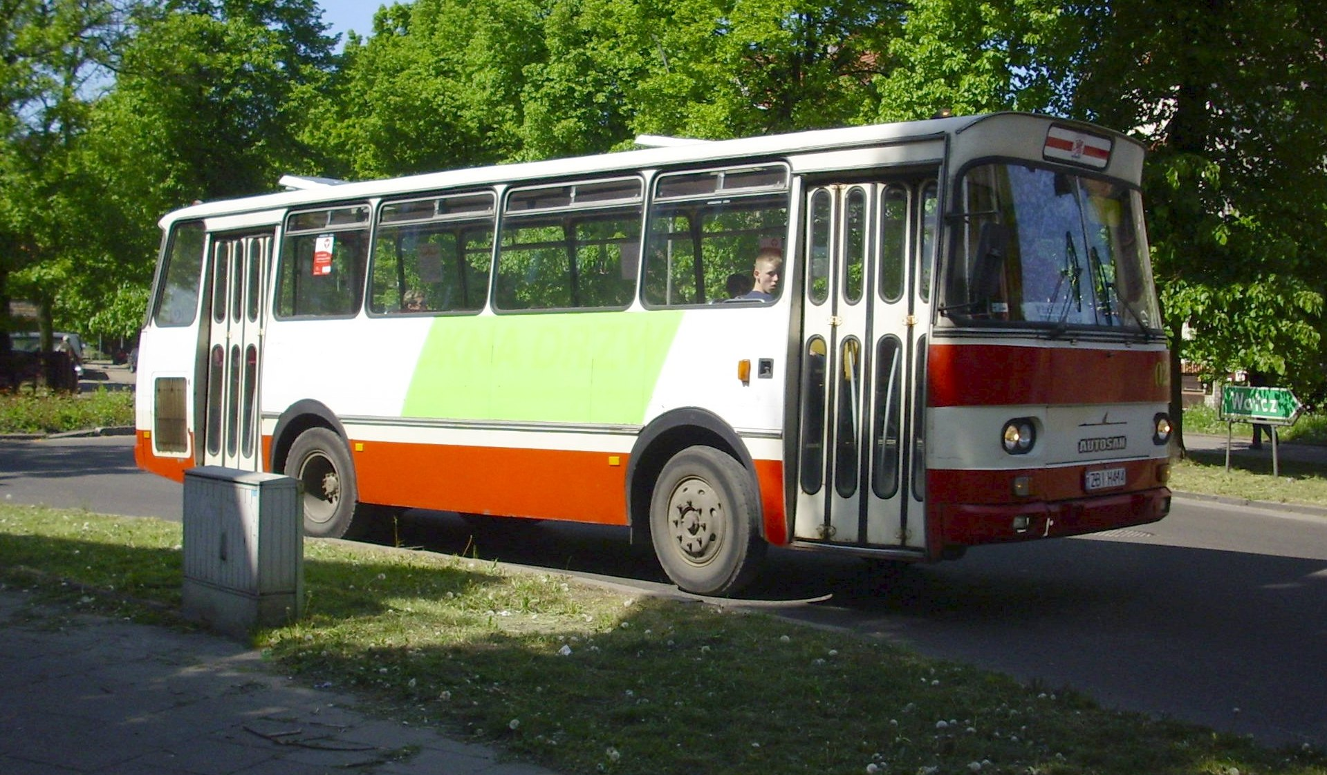 Autosan H9-35 bus (#028) in Białogard, West Pomeranian Voivodeship, Poland. Built 1986, ZKM Białogard operator.